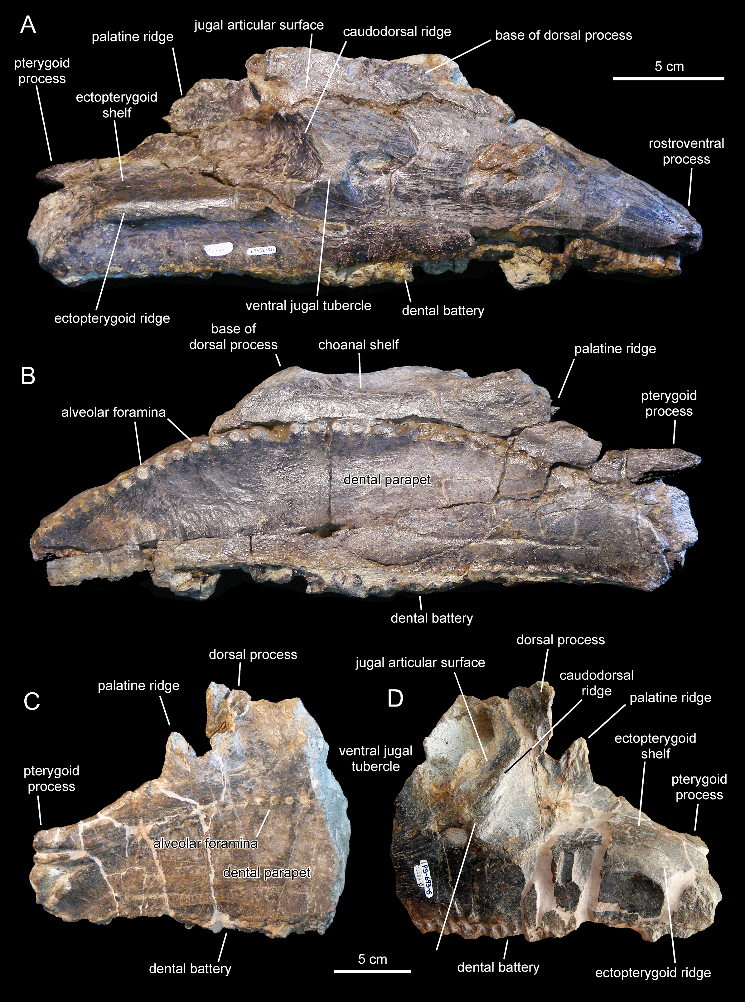 Pararhabdodon isonensis, maxillae. A. Right maxilla (IPS 36327) in lateral view. B. Medial view of same. C. Left maxilla (IPS 693-6) in medial view. D. Lateral view of same.